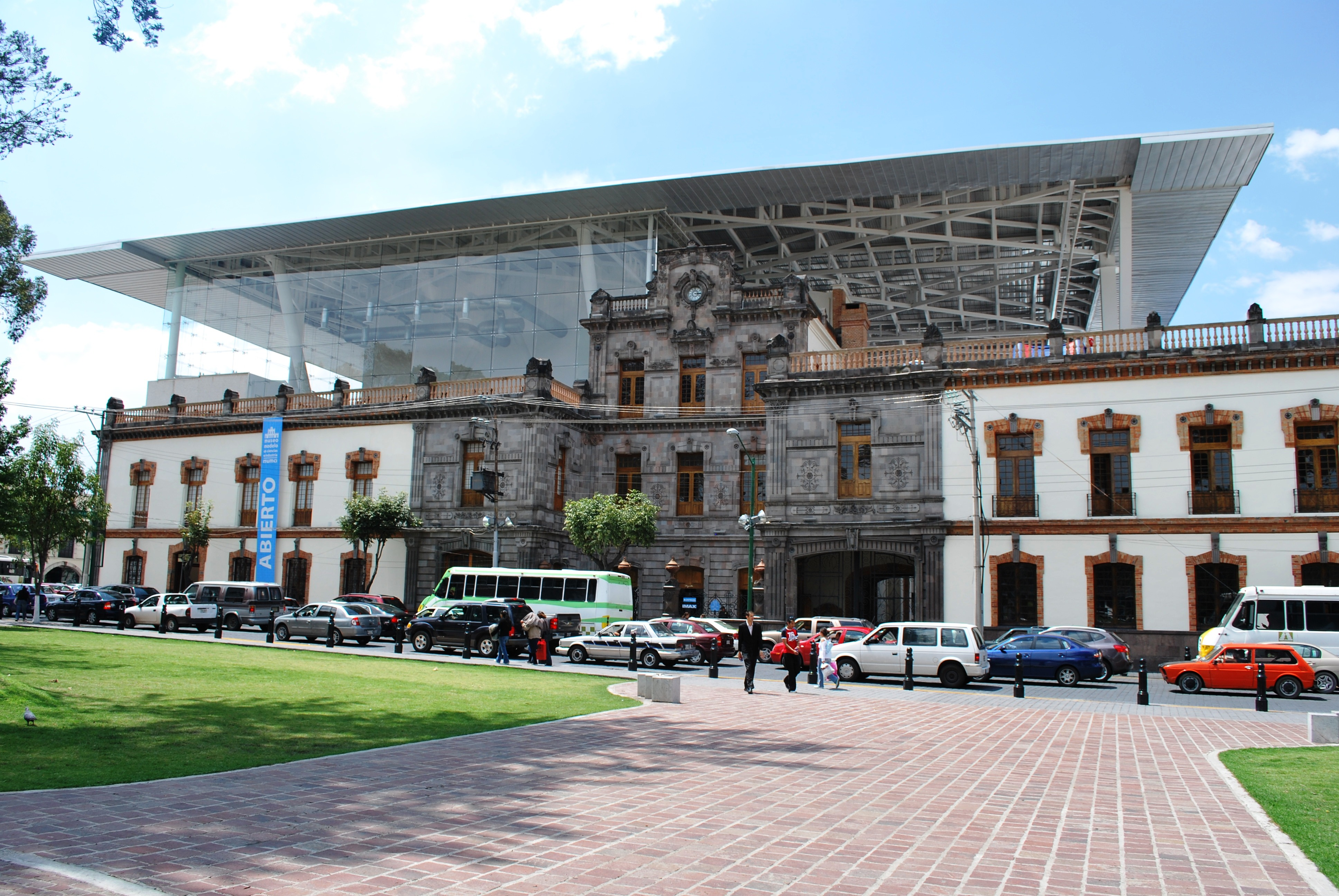 Museo Modelo de Ciencias y Industrias (Model Museum of Science and Industry) in the center of Toluca, Mexico State